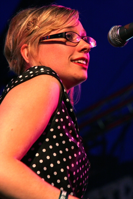 Riot Becki, vocalist of the british groups The Pipettes. Flickr description 'Get Loaded in the Park' second stage